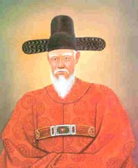 Huam Baik In-geol, Korean Neo Confucian scholars, politicians, writer.